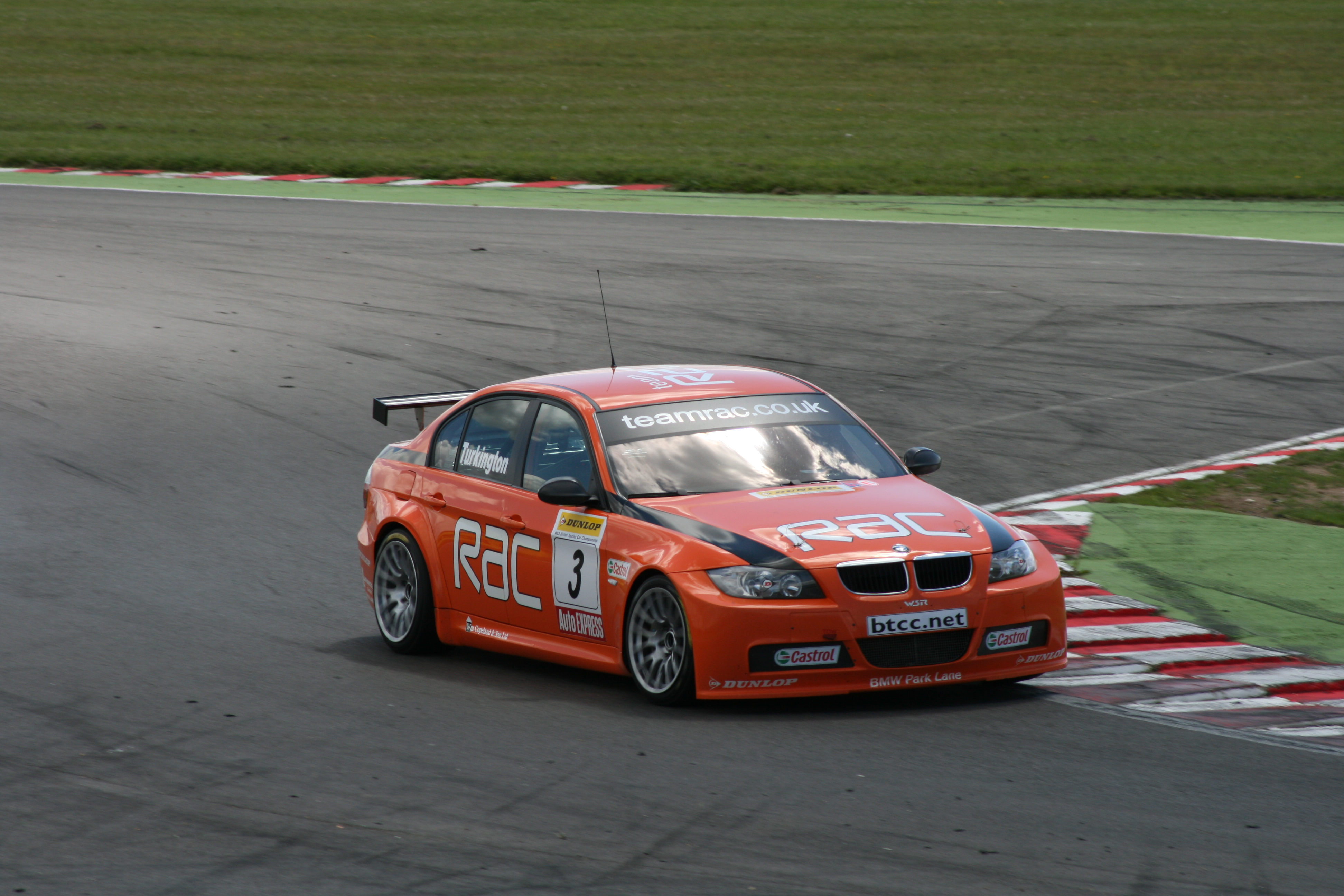 Colin Turkington driving a BMW at Snetterton during the 2007 BTCC season.